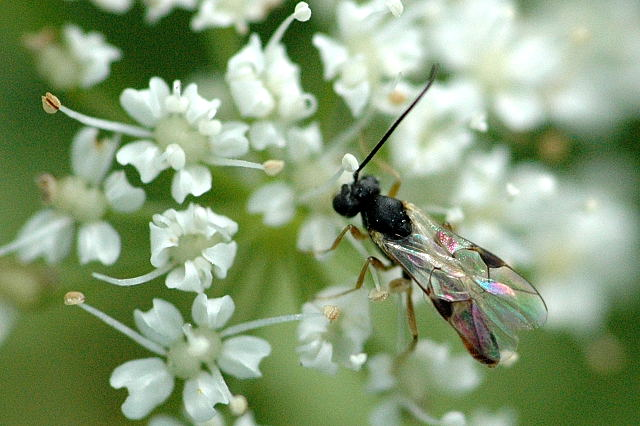 Cotesia melanoscela from Commanster, Belgian High Ardennes .